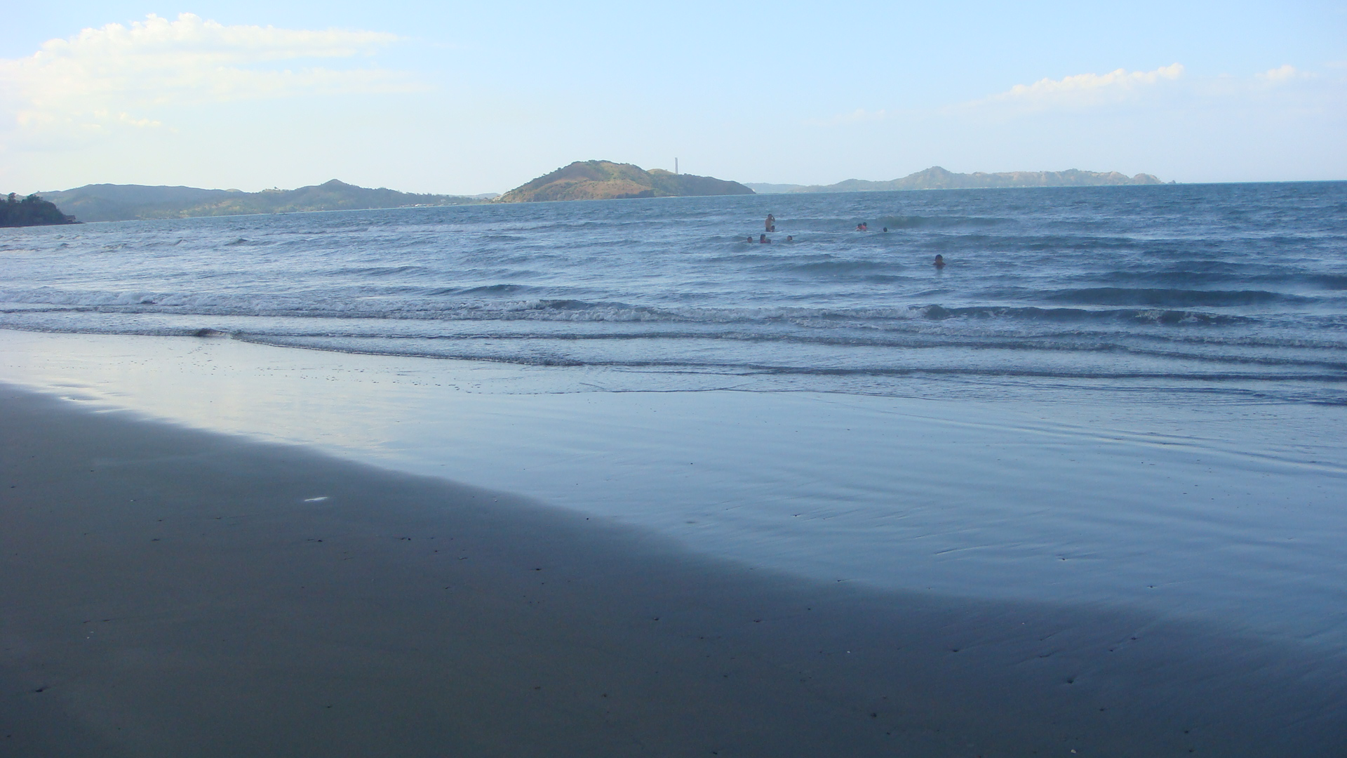 Uyong beaches along coastal shores of Lingayen Gulf, Labrador, Pangasinan[1][2]